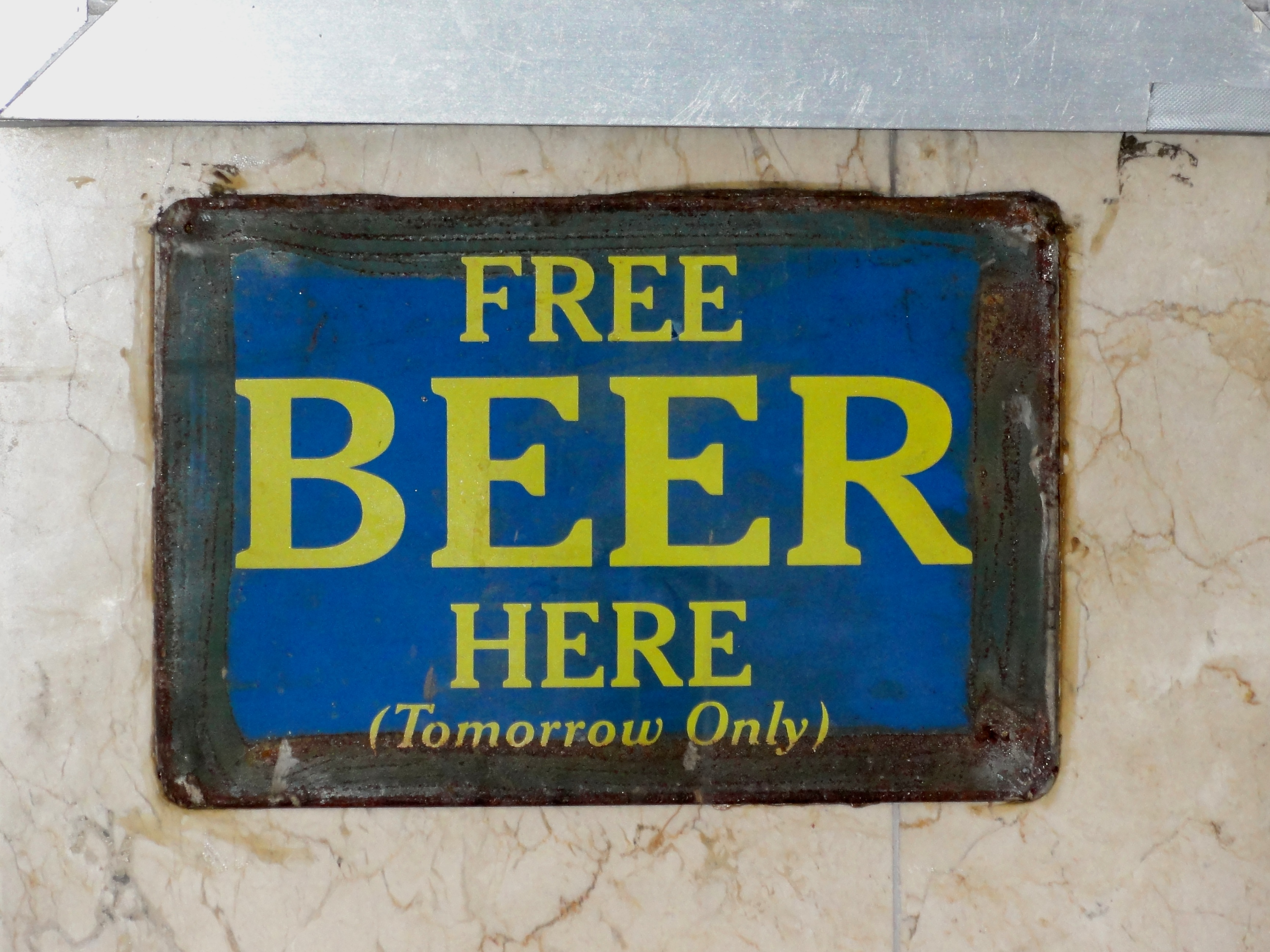 A sign outside a café on Grays Inn Road, Camden, London, with the words "Free Beer Here (Tomorrow Only)"